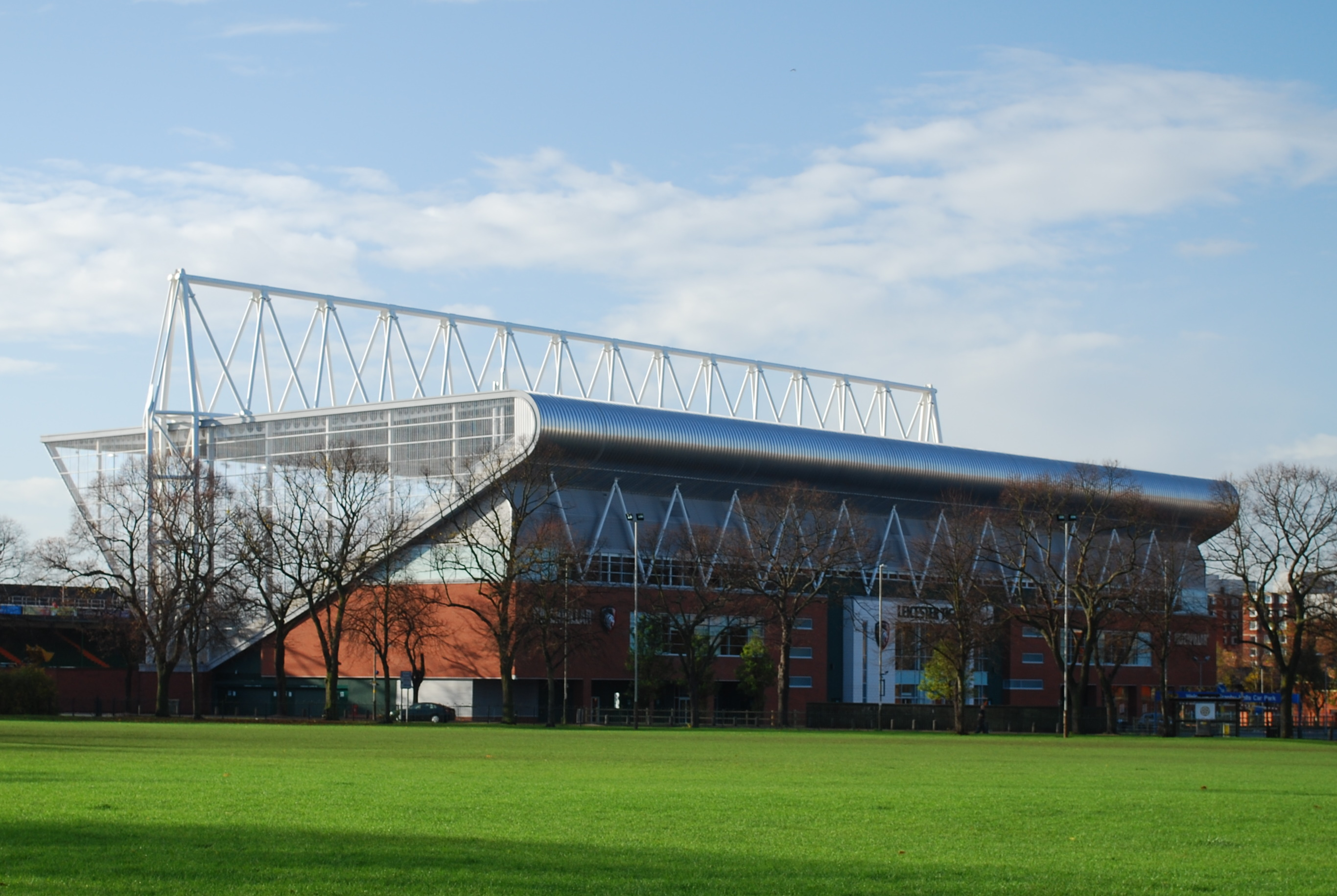 The Caterpillar Stand at Welford Road Stadium, home of Leicester Tigers. Seen from Mandela Park